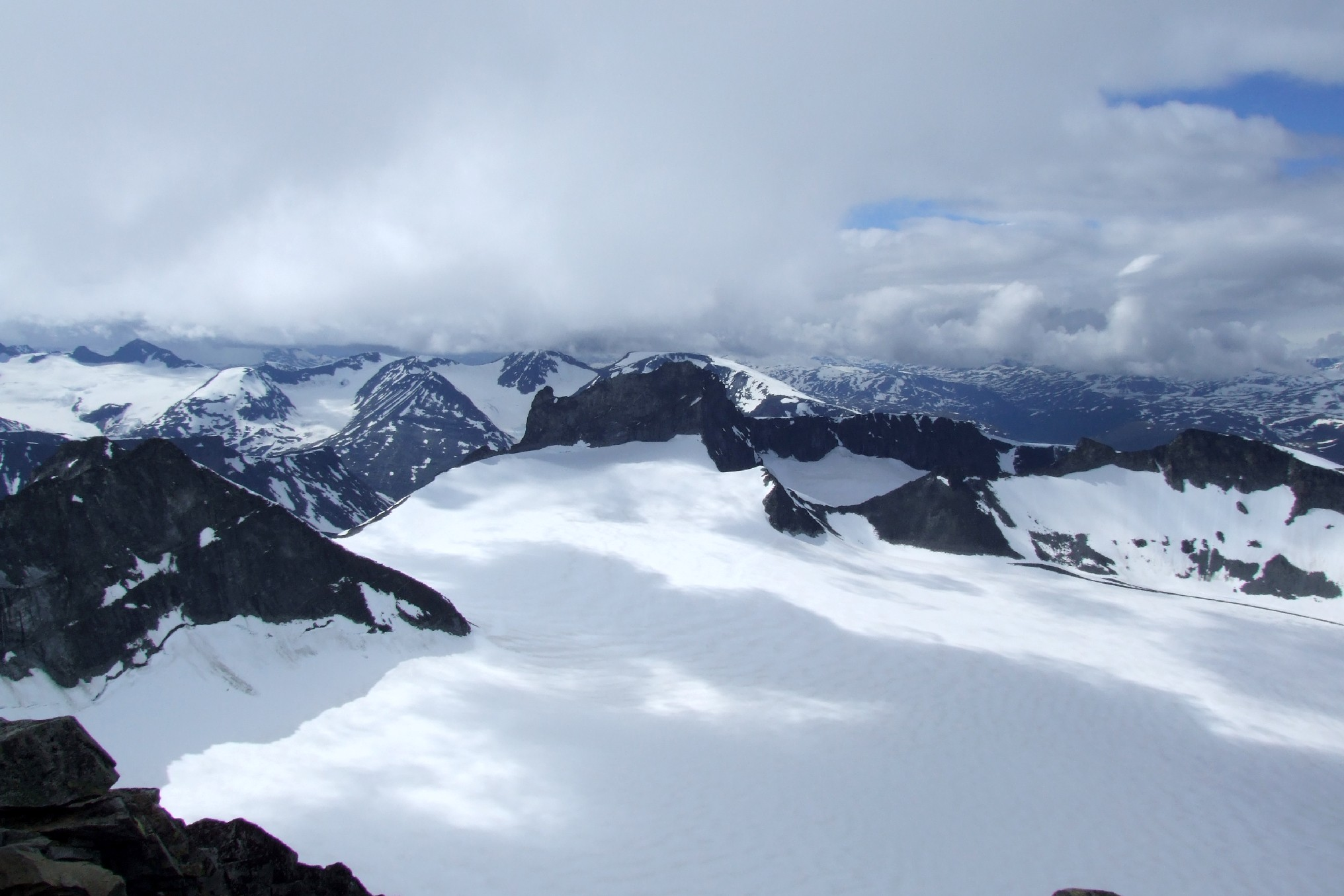 Jotunheimen mountains - view from Galdhøpiggen